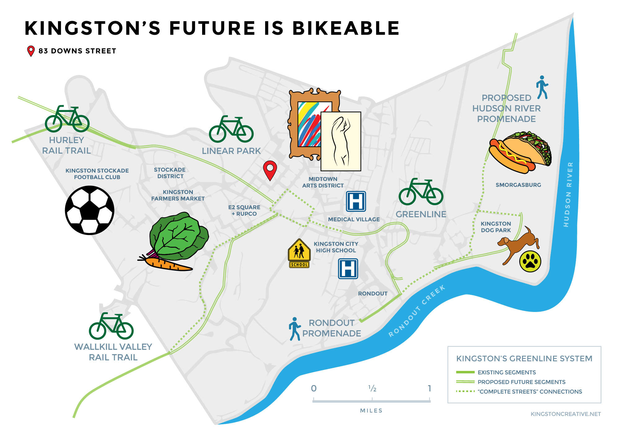 A map of Kingston's biggest attractions mashed up with its network of proposed trails, complete streets connections and bike lanes.